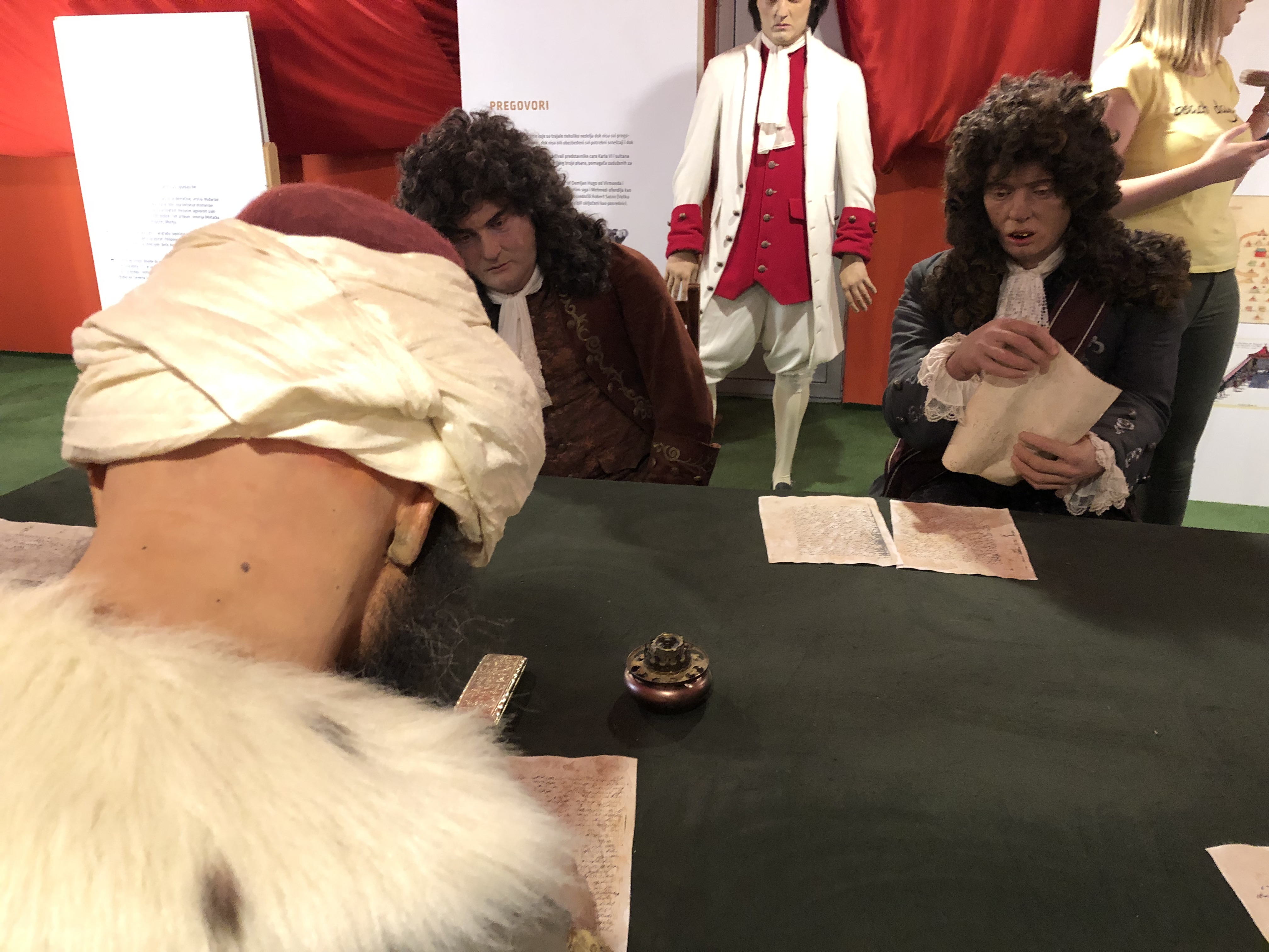 Exhibition on the Treaty of Passarowitz, made in Graz and currently exhibited in Požarevac. Srpski (latinica): Izložba o Požarevačkom miru, napravljena u Gracu i trenutno izložena u Požarevcu.